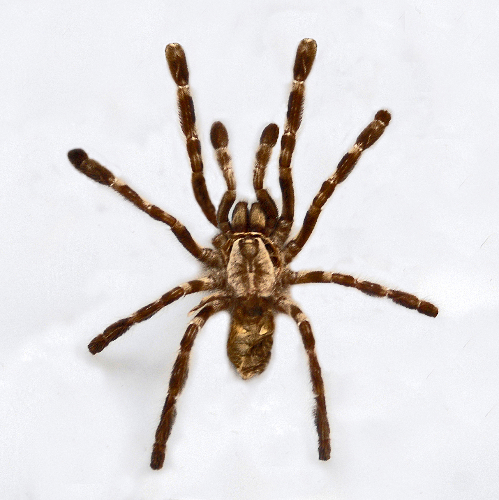 Poecilotheria vittata. Museum specimen